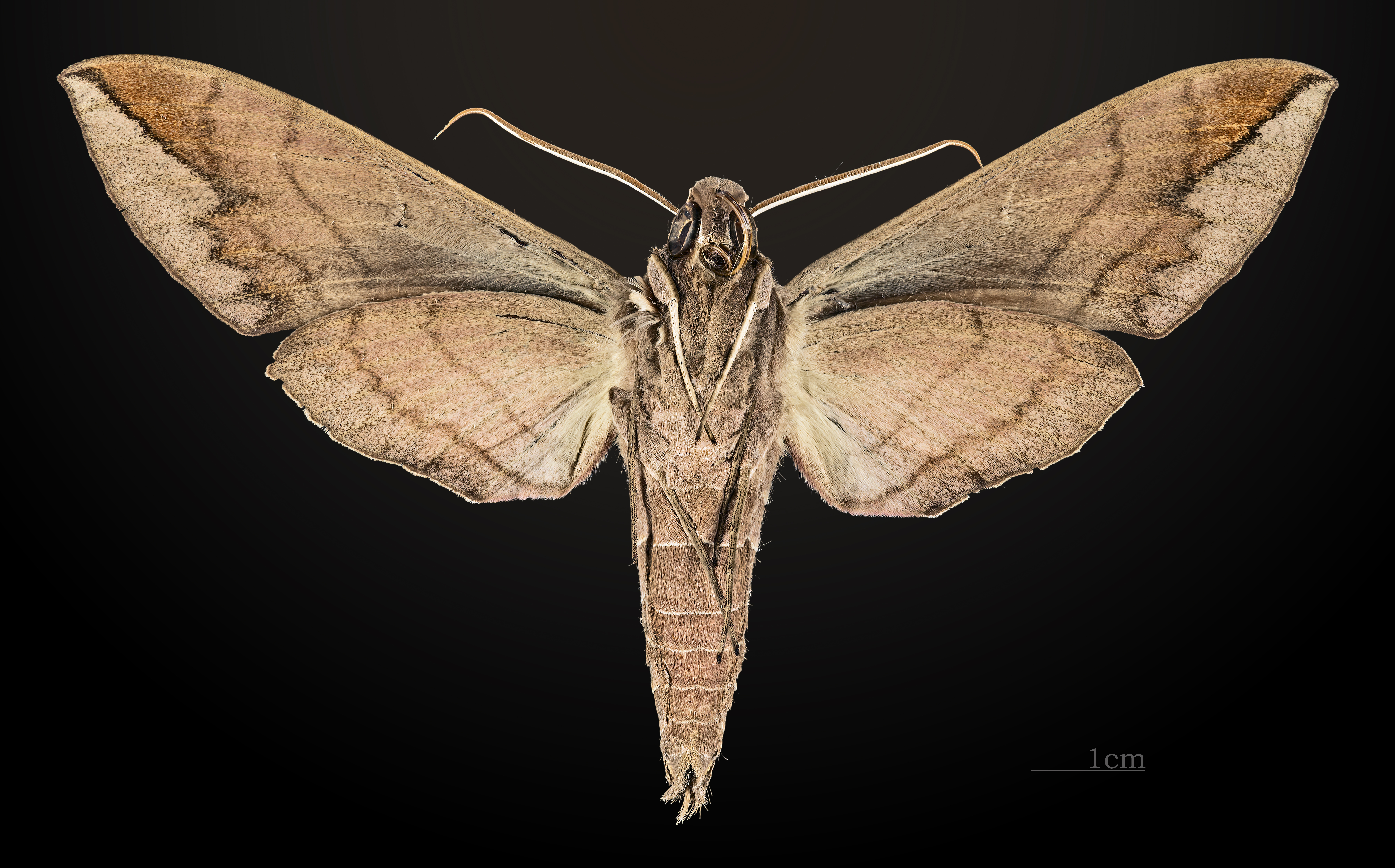 Eumorpha analis - △ Ventral side Collection of the Mathematician Laurent Schwartz